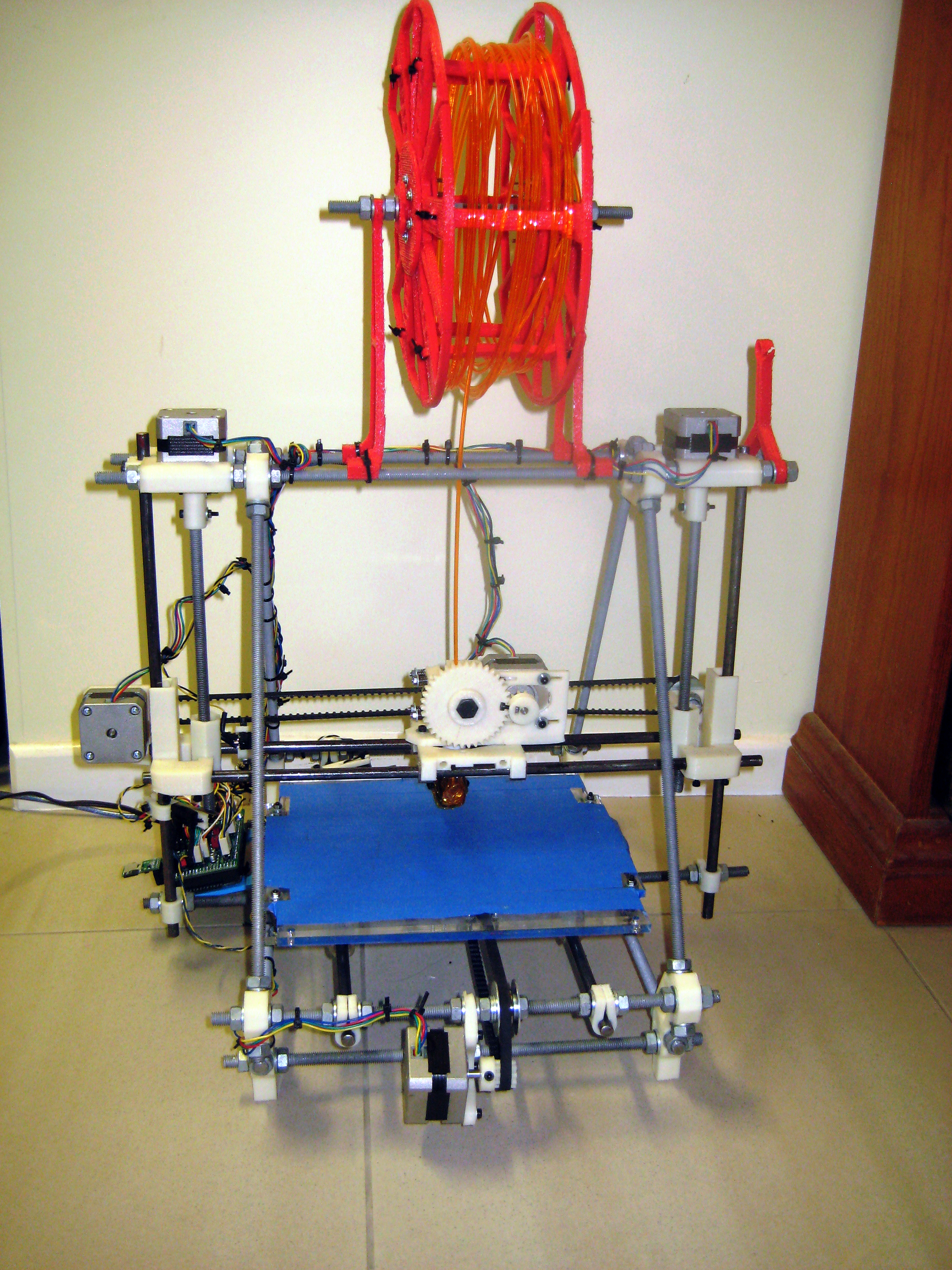 Oblique View